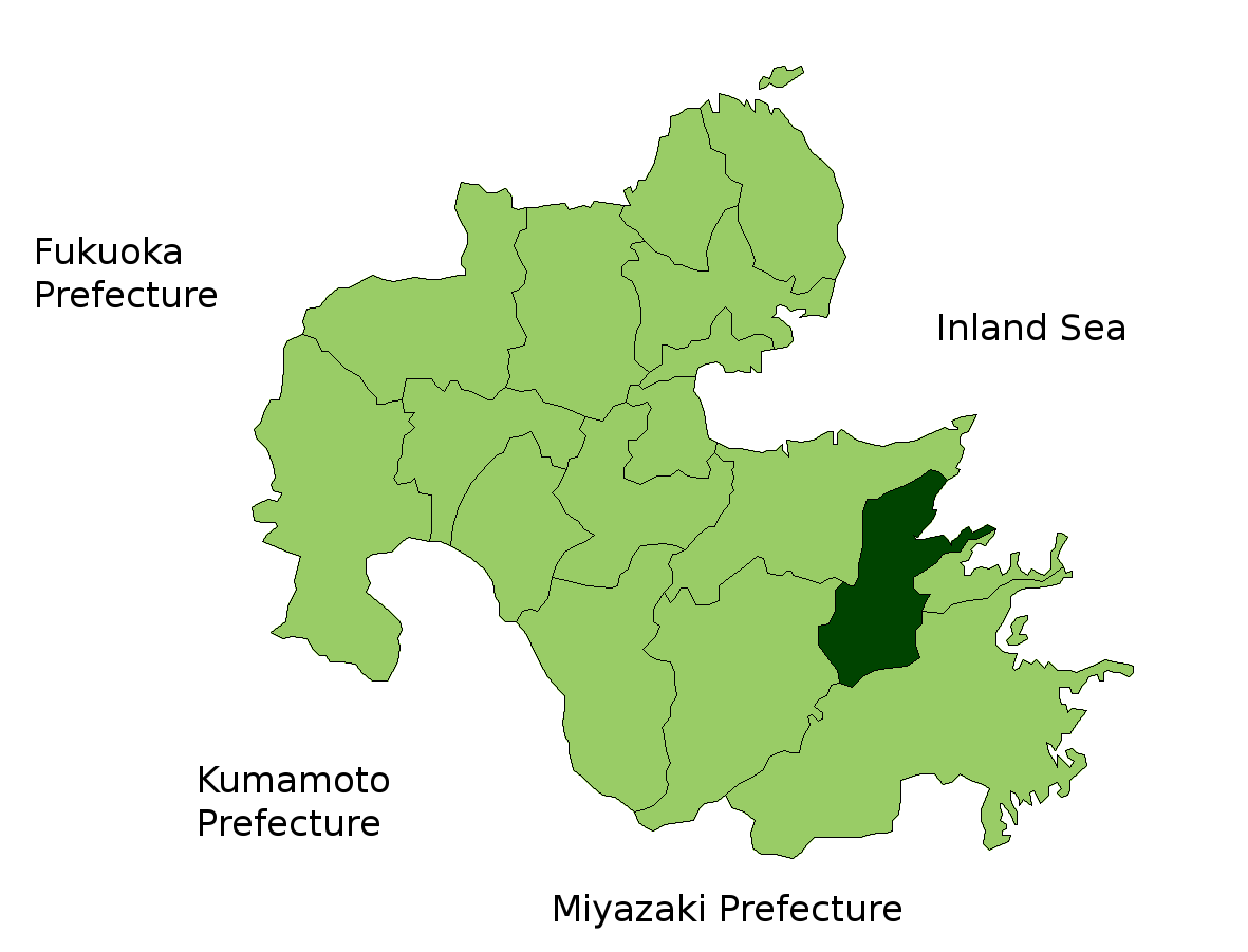 Location Map of Usuki in Oita Prefecture, Japan